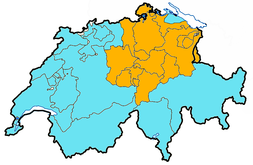 Distribution of French (blue) Swiss playing cards (orange) in Switzerland and Liechtenstein. Not shown are small pockets where Italian playing cards are used.